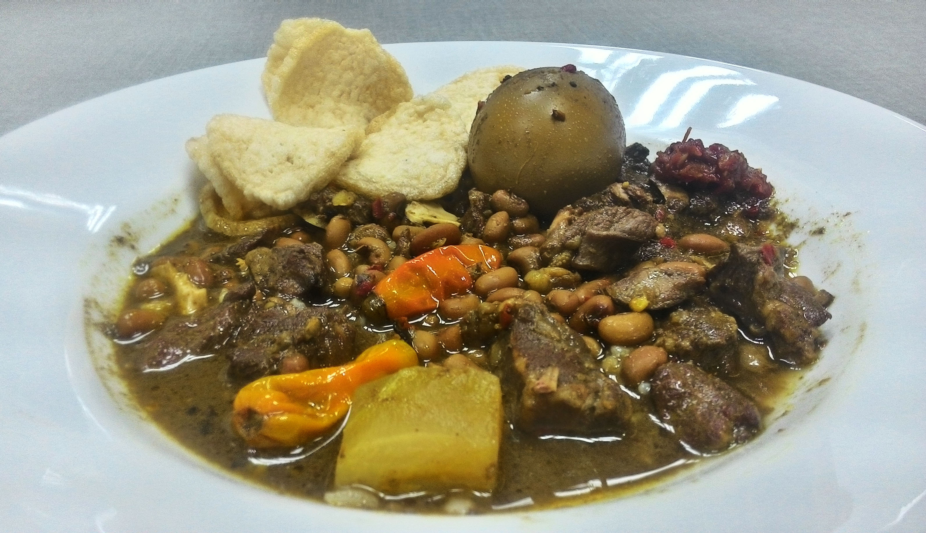 Brongkos Yogyakarta. Brongkos is a Javanese spicy meat and beans stew, a specialty of Yogyakarta, Indonesia. Here the brongkos stew is served with egg and prawn cracker.